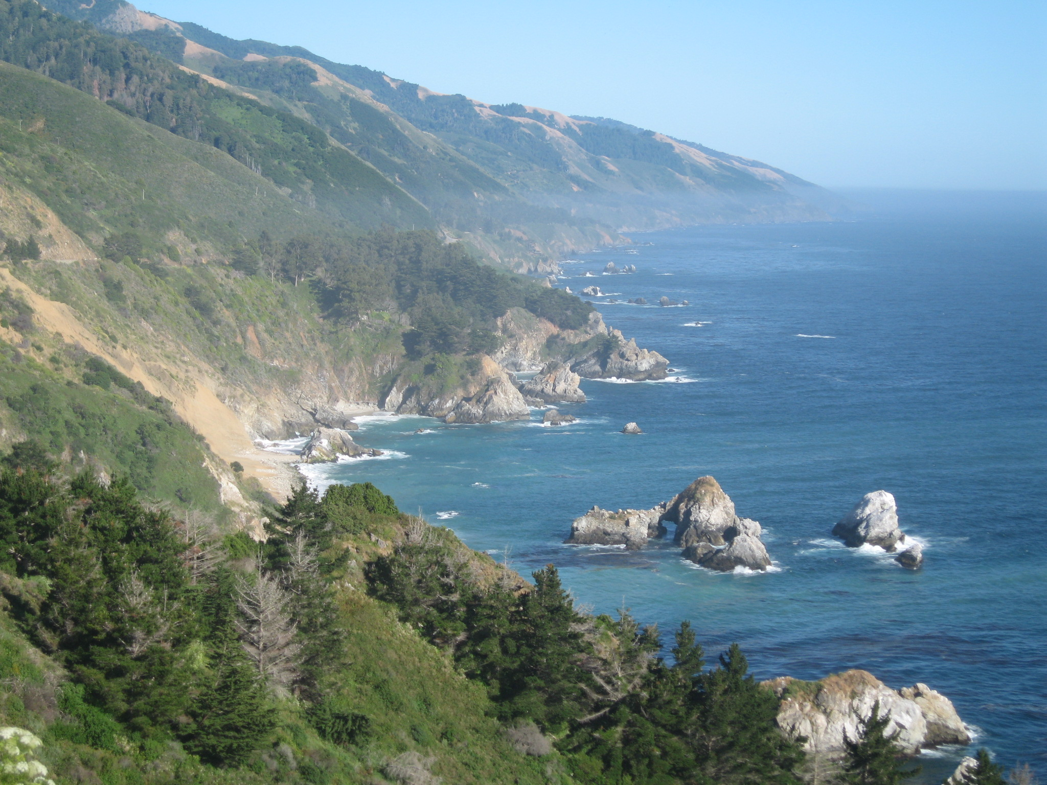 Central California coastline looking south, with the McWay Rocks (with arch) in the foreground, and McWay Cove in the center. The high-resolution version is quite detailed.